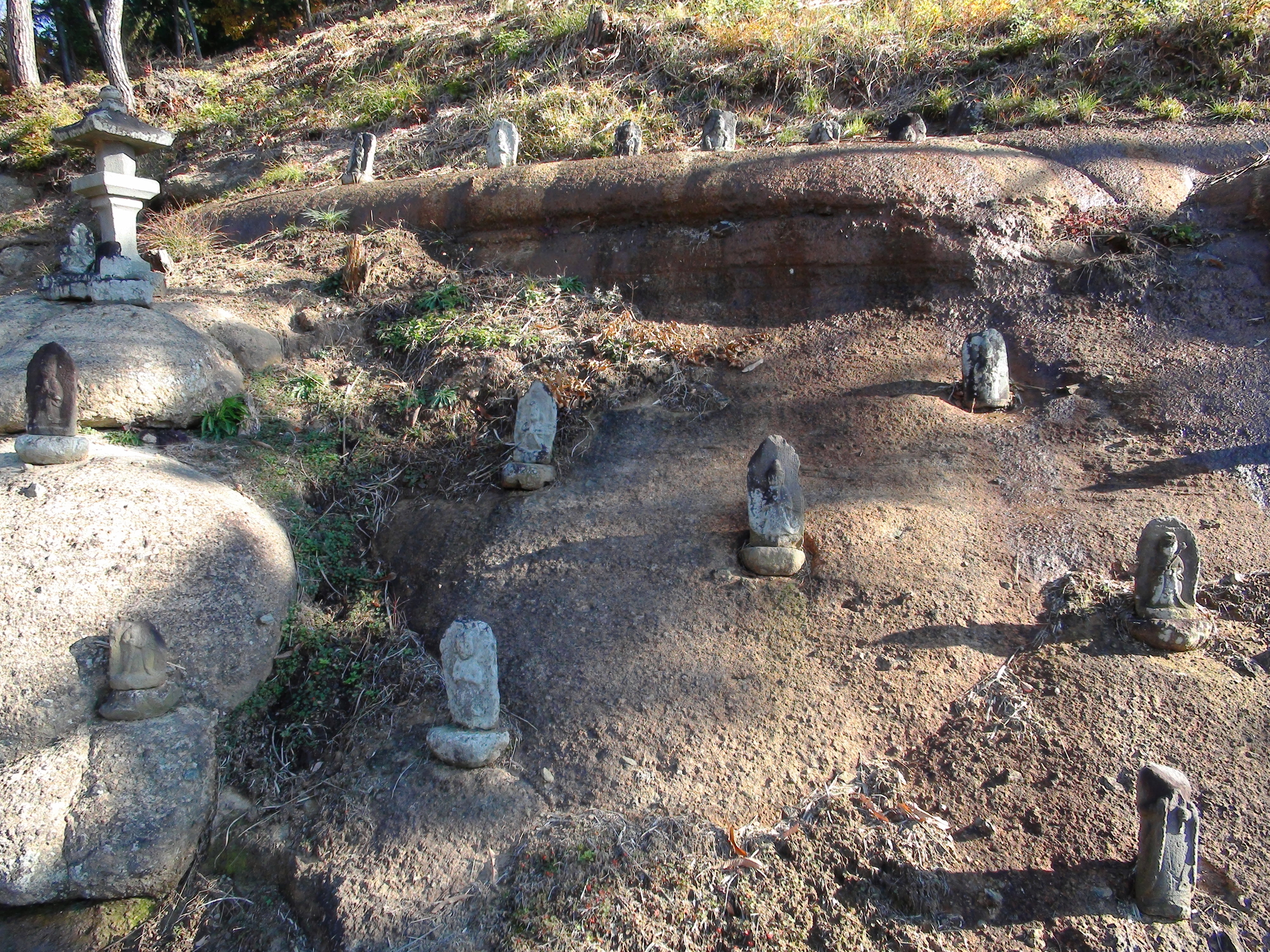 The Buddhist image of a nameless stone Buddhist temple Eishoin Yamanashi city